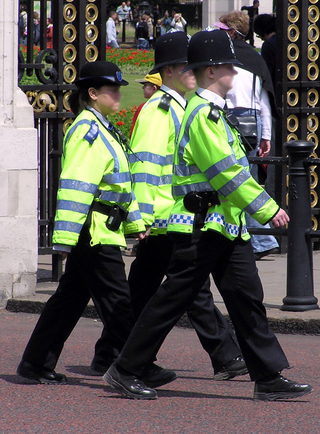 Two police officers and a community support officer near Buckingham Palace, London, England. The CSO has the blue shoulder flash. Their faces have been blurred for privacy. Photographed by Adrian Pingstone in June 2005 and released to the public domain.